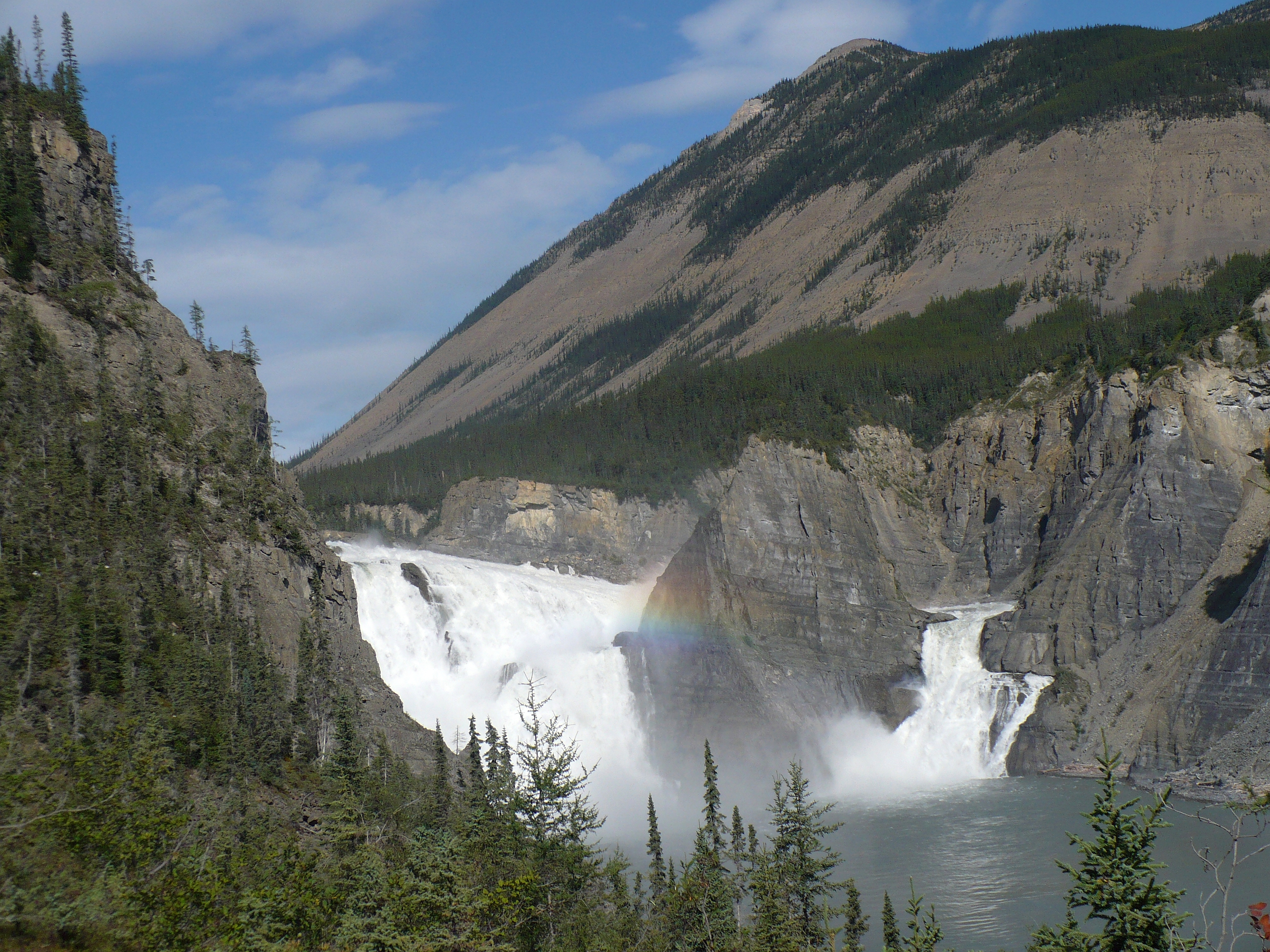 Virginia Falls (Nailicho), Nahanni National Park Reserve, Northwest Territories, Canada